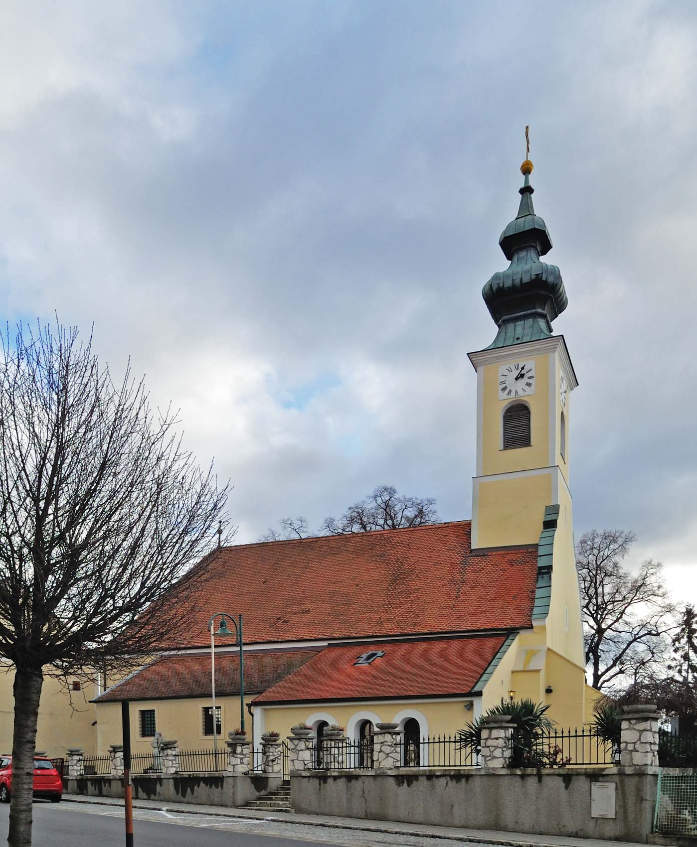 Catholic parish church in Hof am Leithaberge, Lower Austria, Austria